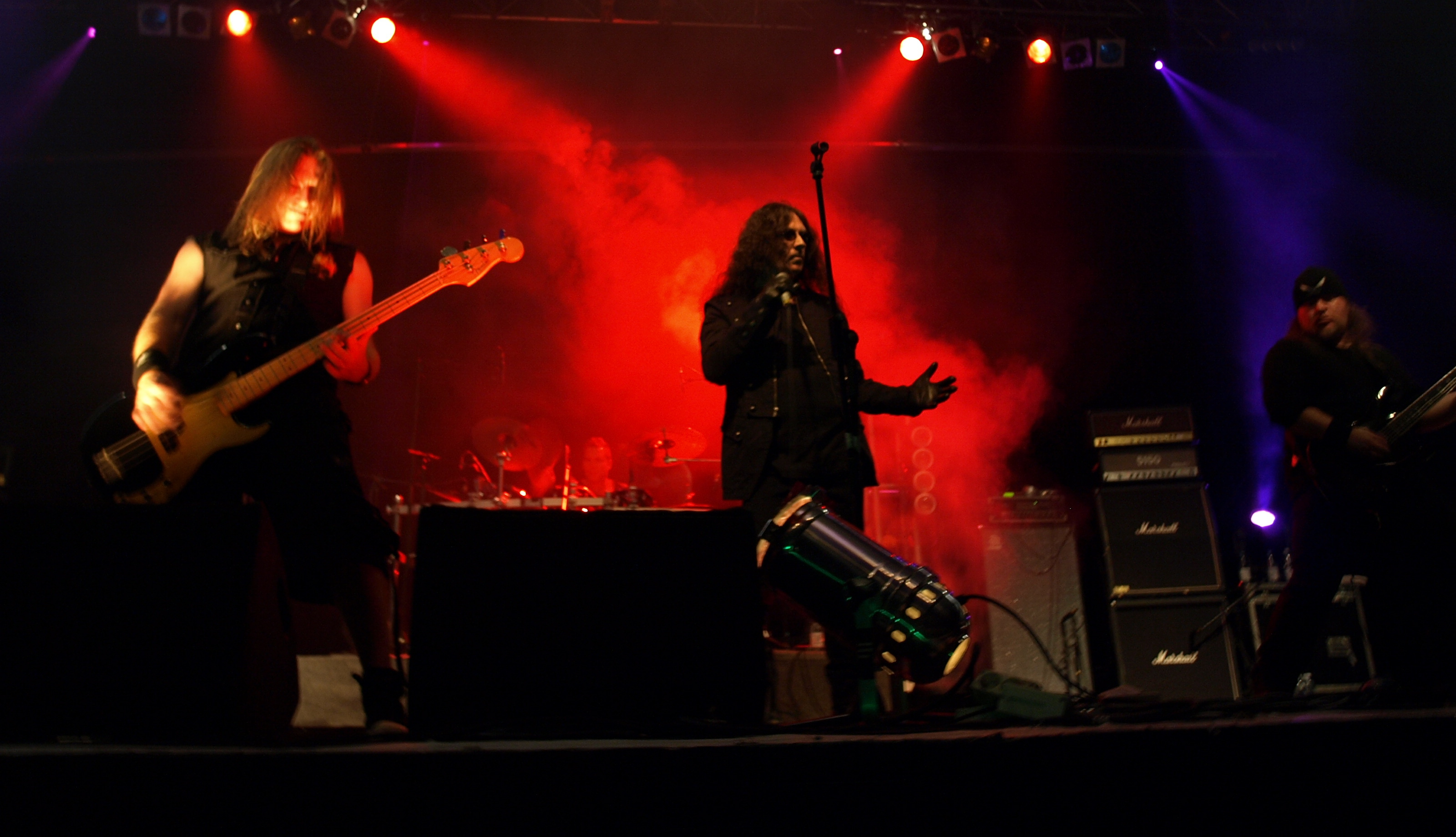 British heavy metal band Blitzkrieg live at Jalometalli 2008 in Oulu.